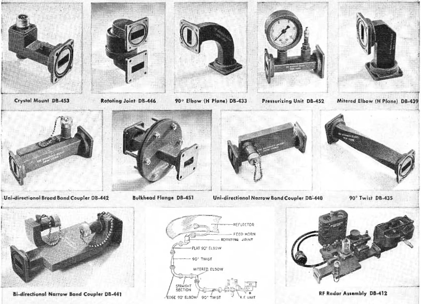 An assortment of standard waveguide components, from an advertisement by De Mornay - Budd Inc., New York, in a 1947 electronics magazine. Waveguide is used to conduct microwave radio waves from place to place. Microwaves are used in data networking links, communications satellites, satellite TV, radar, and microwave ovens. A waveguide is a conductive metal "pipe" that confines the microwaves.